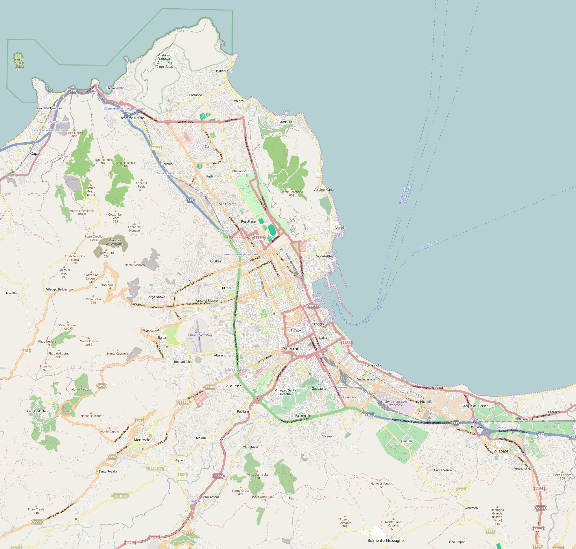 Map of Palermo, Italy This map of Palermo was created from OpenStreetMap project data, collected by the community. This map may be incomplete, and may contain errors. Don't rely solely on it for navigation.